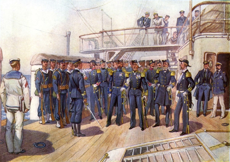 Uniforms of the Royal Hellenic Navy. ca. 1890-1910